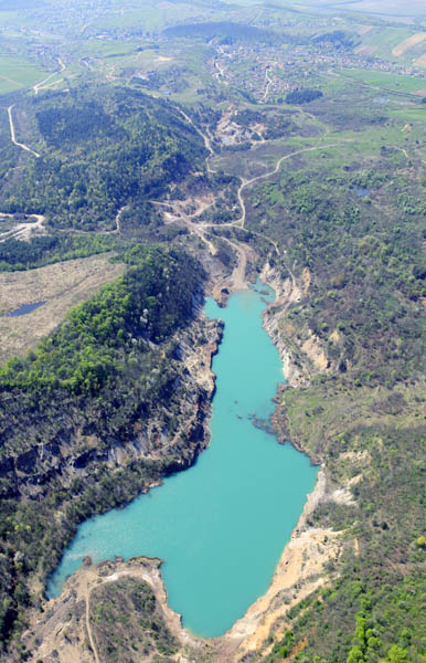 Rudabánya, Hungary, aerial photography